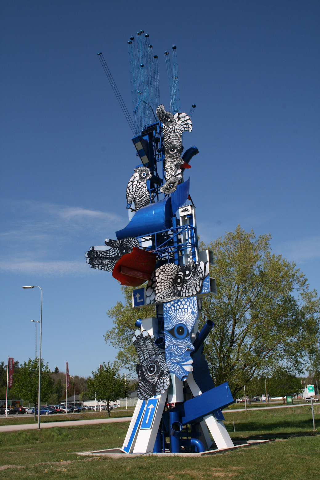 Sculpture T.E.S.T. (Terrestrial Ephemeral Super Transmitter) by Carolina Falkholt in Mariestad, Sweden. Made of pieces from the demolished silo, 2010-2011.